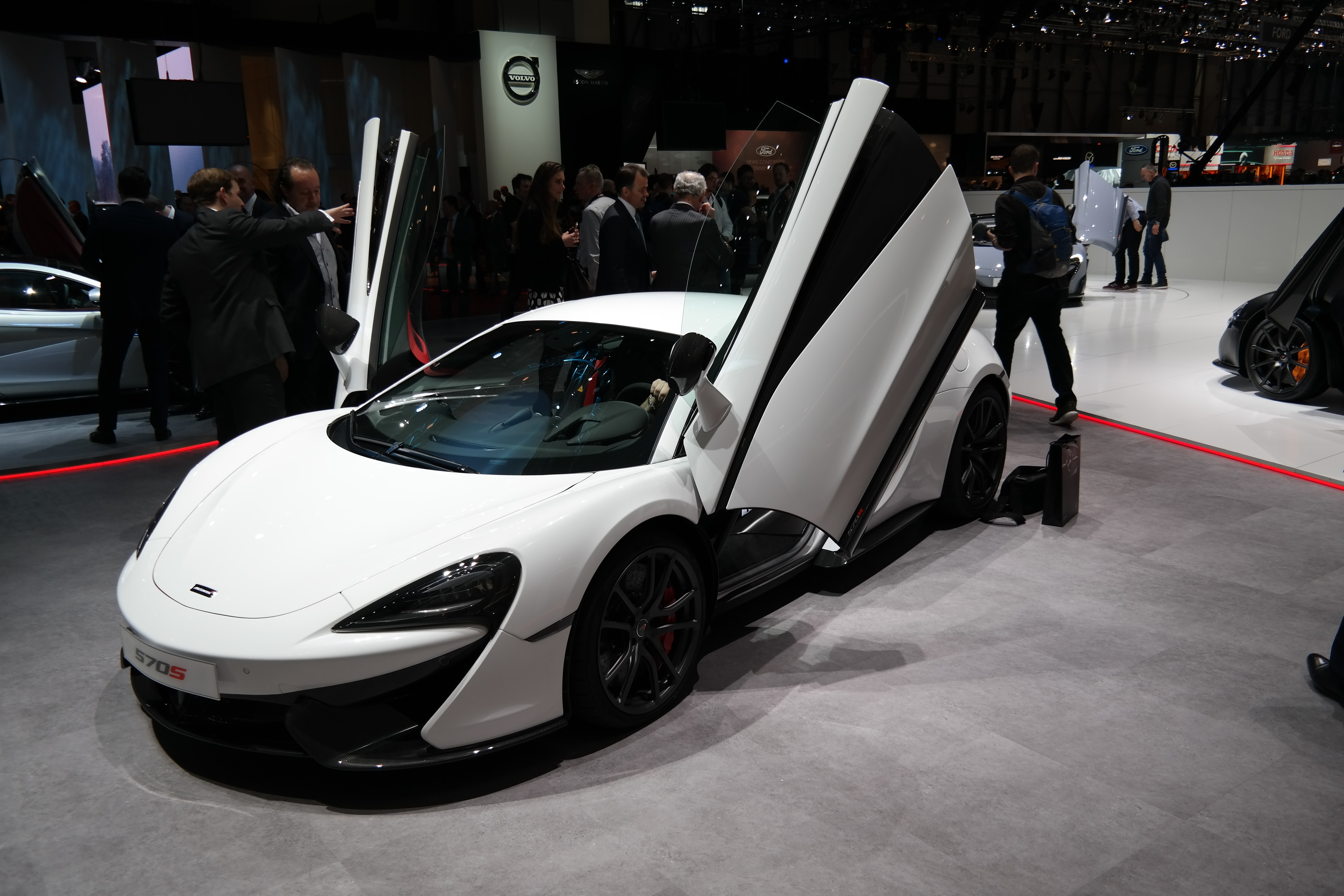 Geneva Motor Show 2016 (photo taken on the first press day)